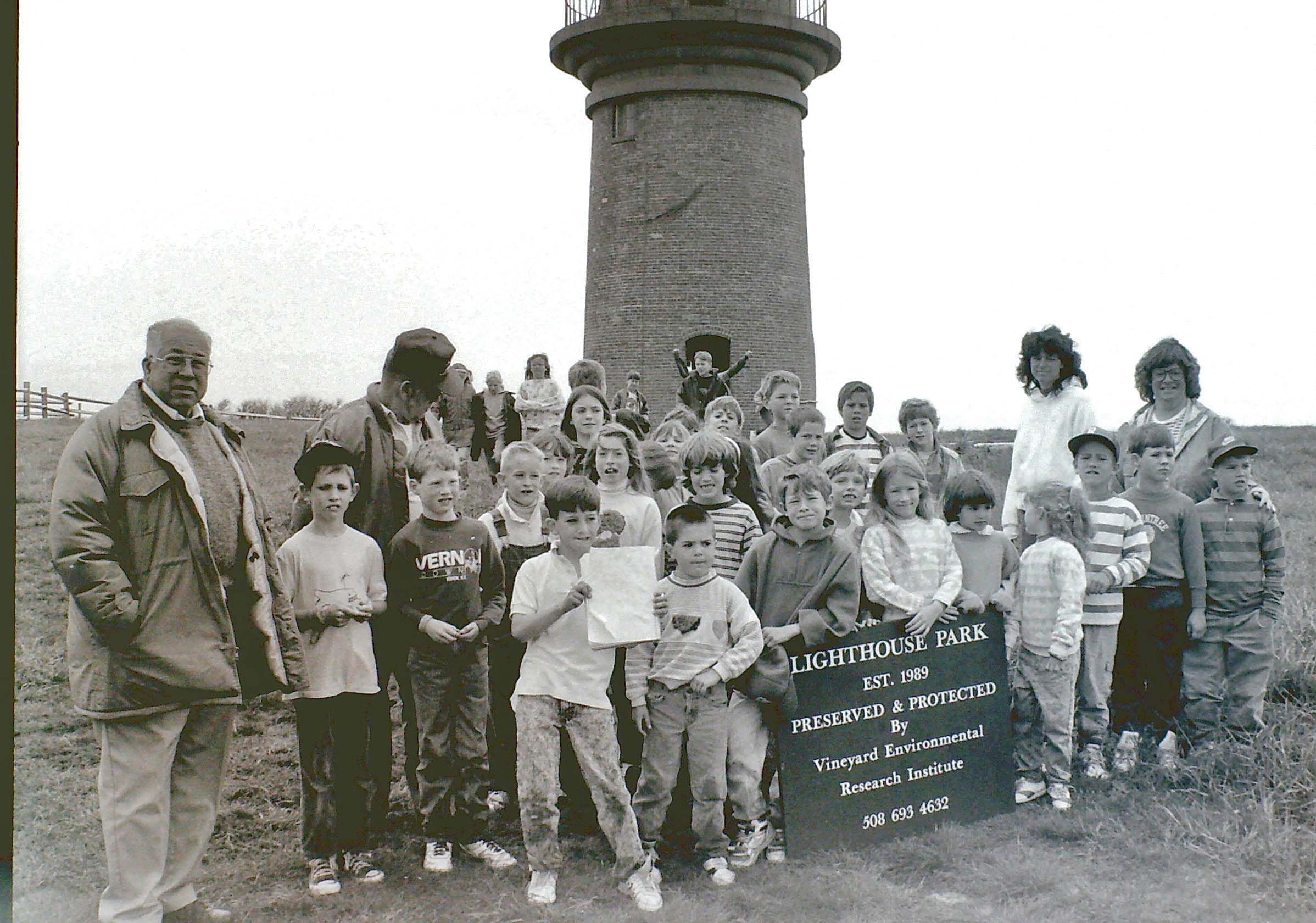 Charles Vanderhoop, Jr.(on left), with a group of students from the island's Chilmark School. Charles was born in the previously attached Gay Head Light Keeper's house while his father, Charles W. Vanderhoop, was Principal Lighthouse Keeper from 1920-1933. Charles enjoyed enthralling island school children with his childhood stories about helping his father care for the Gay Head Lighthouse when it was illuminated by whale oil. Vineyard Environmental Research, Institute (VERI) took control of the Gay Head Light property via USCG license in 1985. "Lighthouse Park" was created in 1989 after VERI enclosed the grounds surrounding the lighthouse with a post and rail fence and installed an access gate. The new fence and gate prevented trespassers from climbing and damaging the fragile clay cliffs for beach access - which was an age-old tradition. Charles Vanderhoop, Jr., served as an Assistant Keeper at the Gay Head Light from 1986 to 1990. Photo by: Principal Lighthouse Keeper: William Waterway Marks